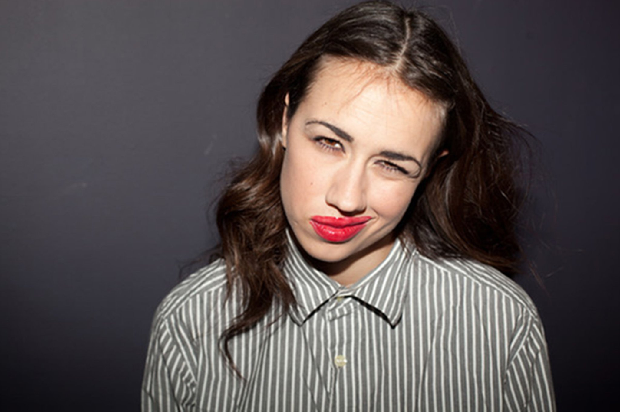 YouTube star and famous celebrity Miranda Sings.